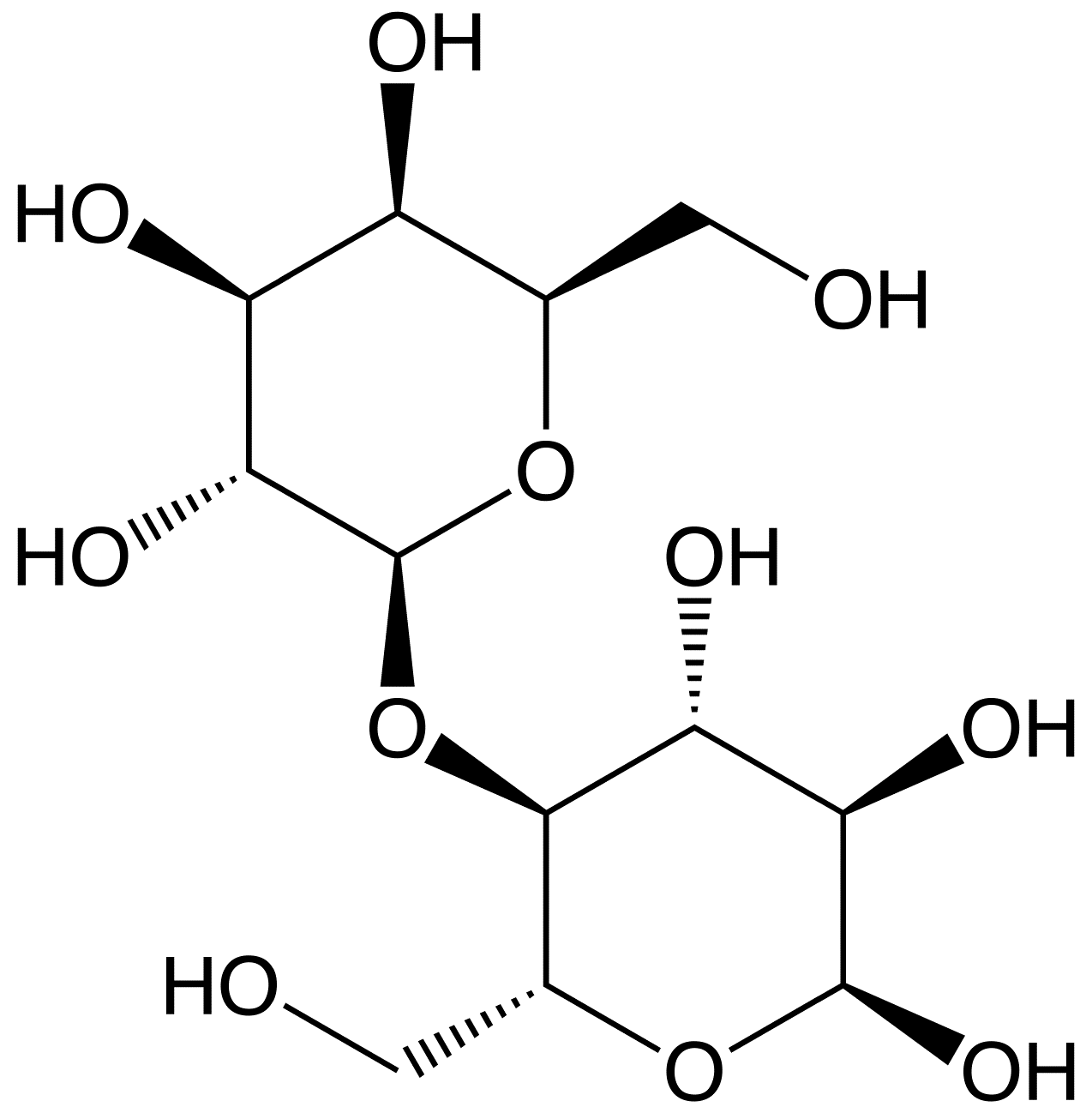 Lactose skeletal [kekule] (stereochemistry reflected)